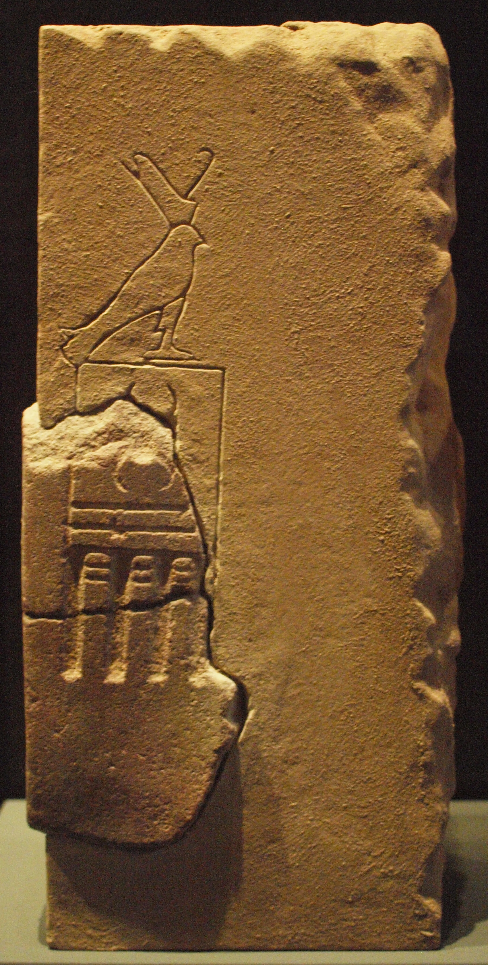 Fragmentary Statue Bearing the Title of Pharaoh Radjedef (Djedefra) - 4th Dynasty, Staatliches Museum Ägyptischer Kunst München, ÄS 520, 5253a-b, AS 5249 and AS 5254